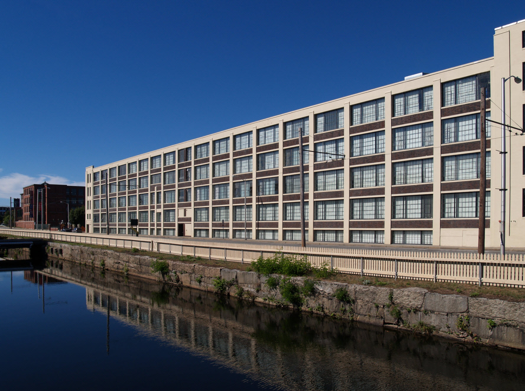 Saco-Lowell Building 15, built 1923 by the Saco-Lowell Shops, Dutton Street along the Merrimack Canal. Constructed of reinforced concrete. Now apartments.